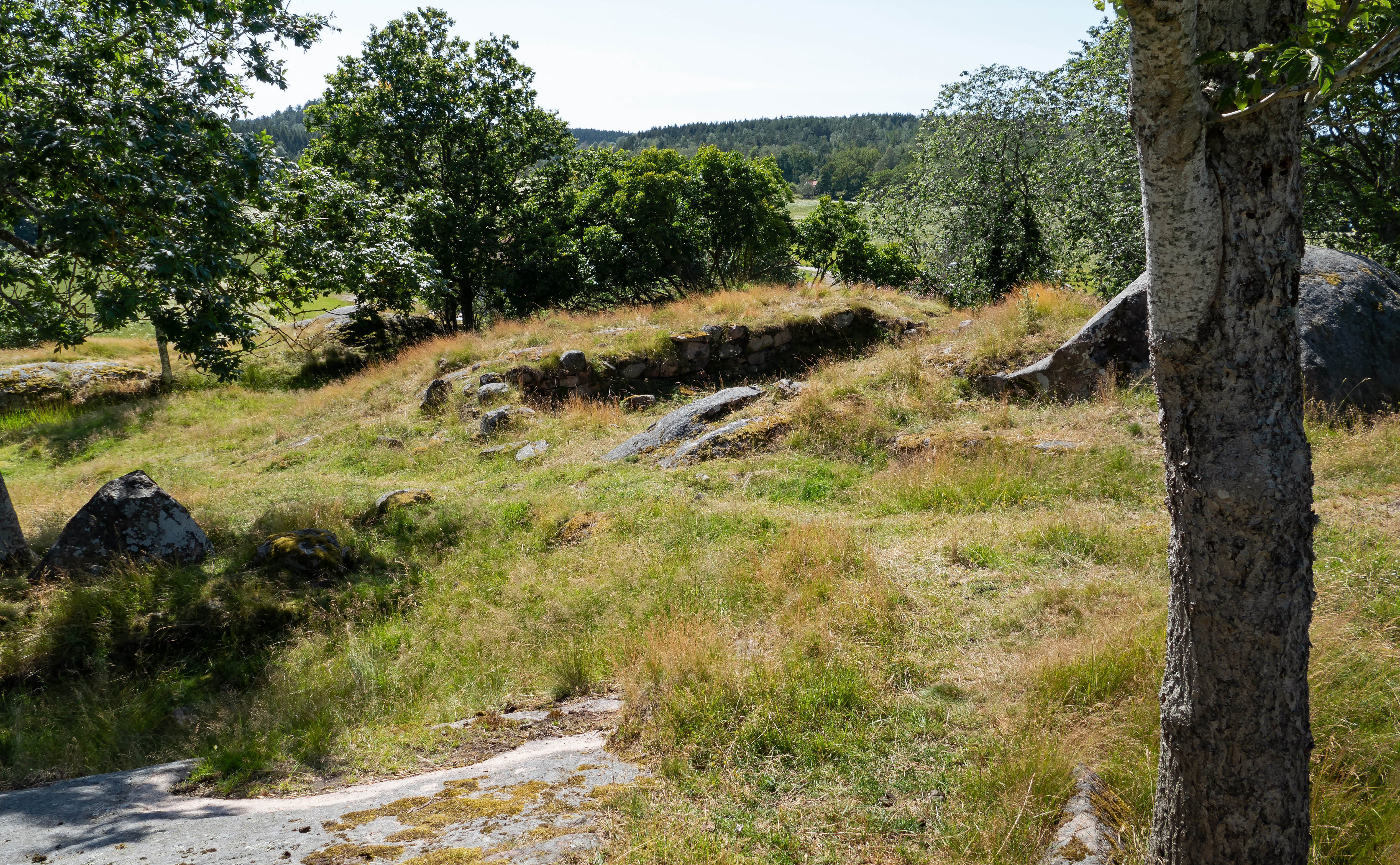 Path between north and south ruins at Röe Castle right by Röe gård in Röe, Lysekil Municipality, Sweden.